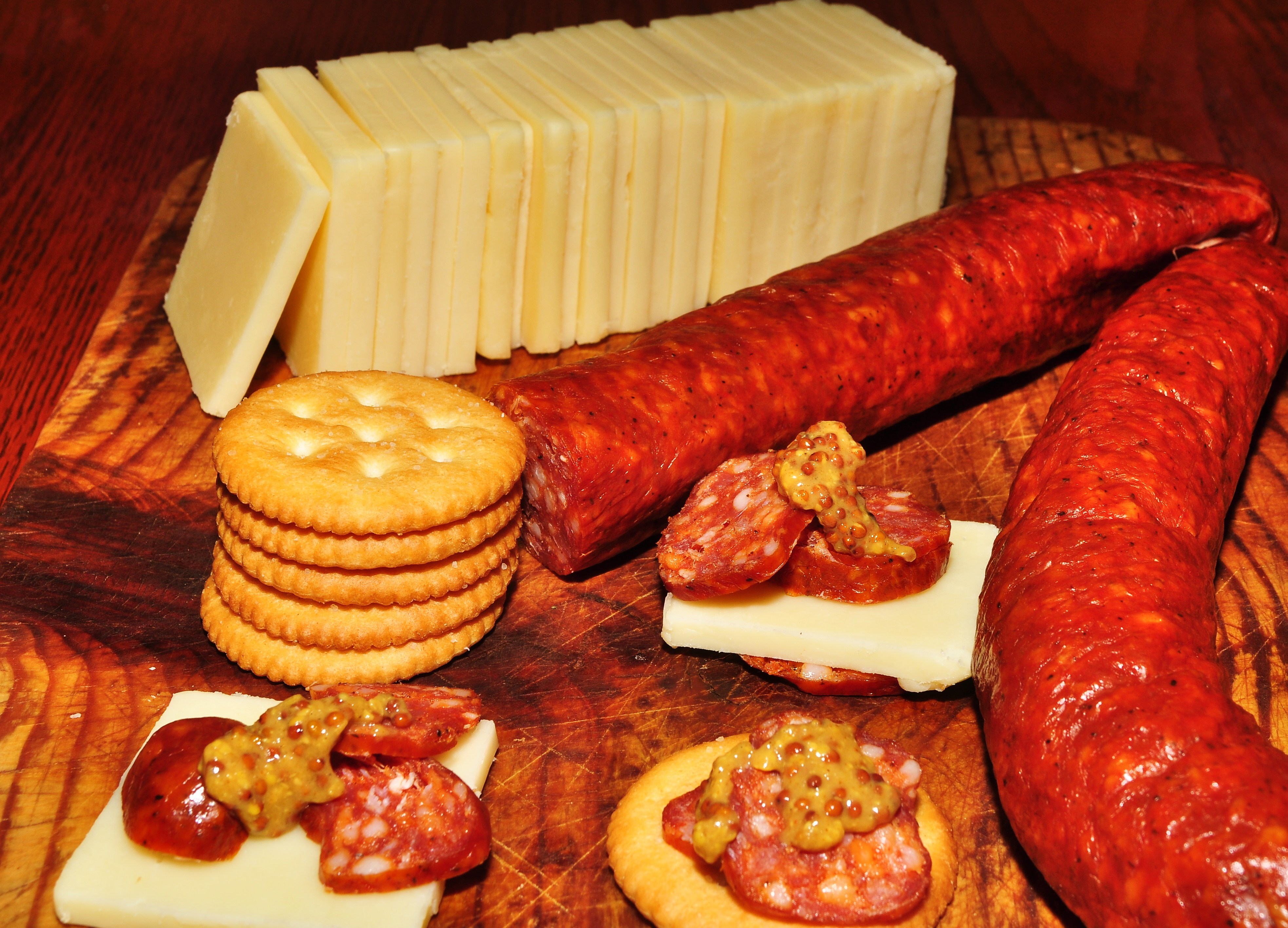 Gyulai sausage, sharp white cheddar